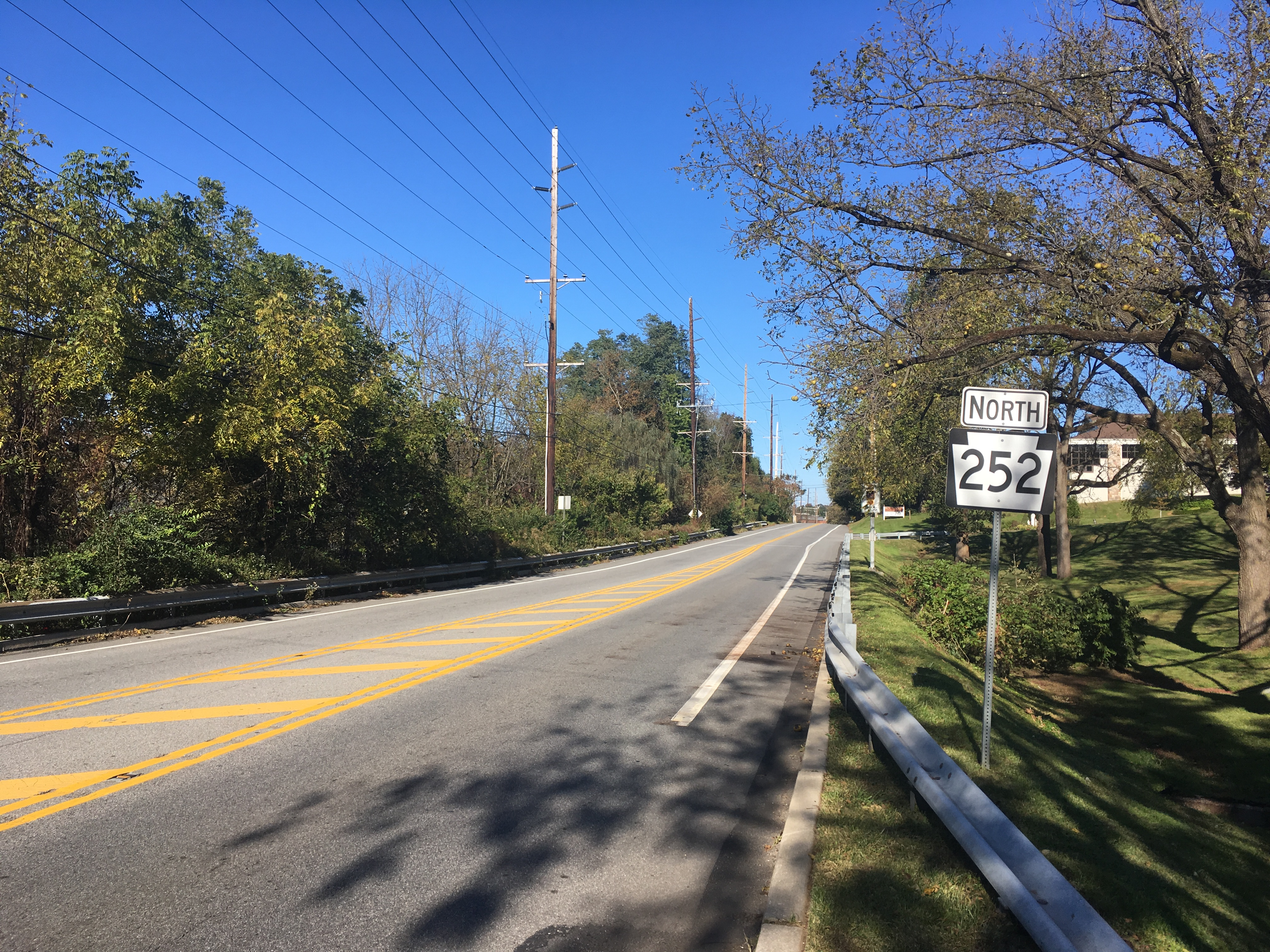 Northbound Pennsylvania Route 252 (Leopard Road) past the intersection with Darby Road/Sugartown Road in Easttown Township, Pennsylvania